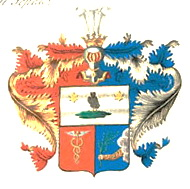 Coat of Arms of family Zeeh